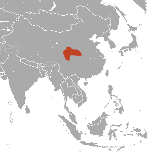 Golden Snub-nosed Monkey (Rhinopithecus roxellana) range